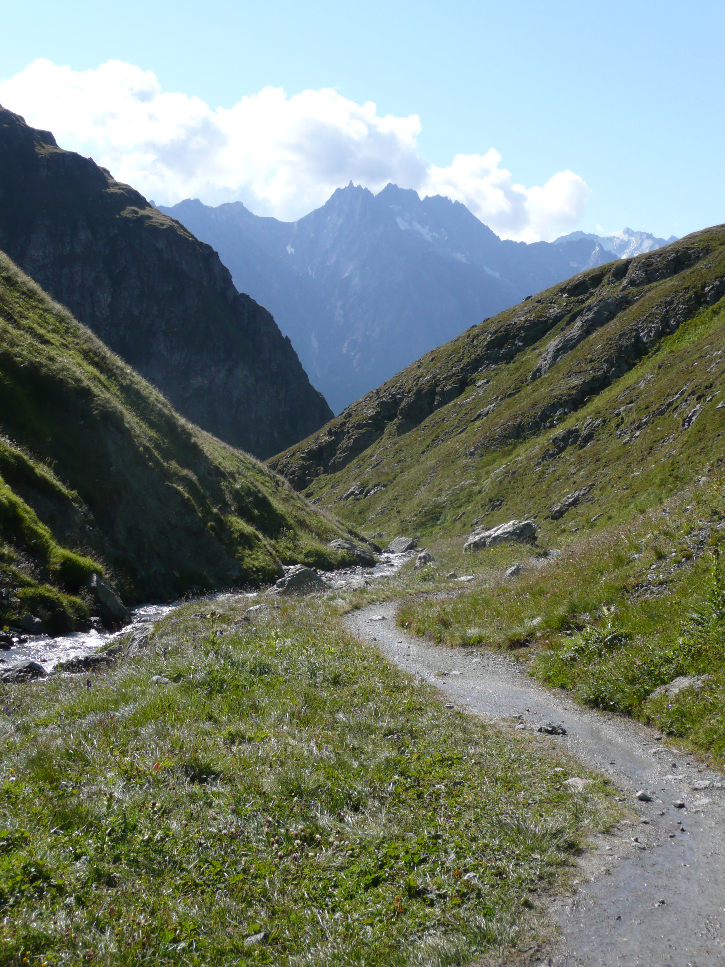 Piz Bacun as seen from south of Septimerpass (rätoromanisch Pass da Sett), Passo del Settimo